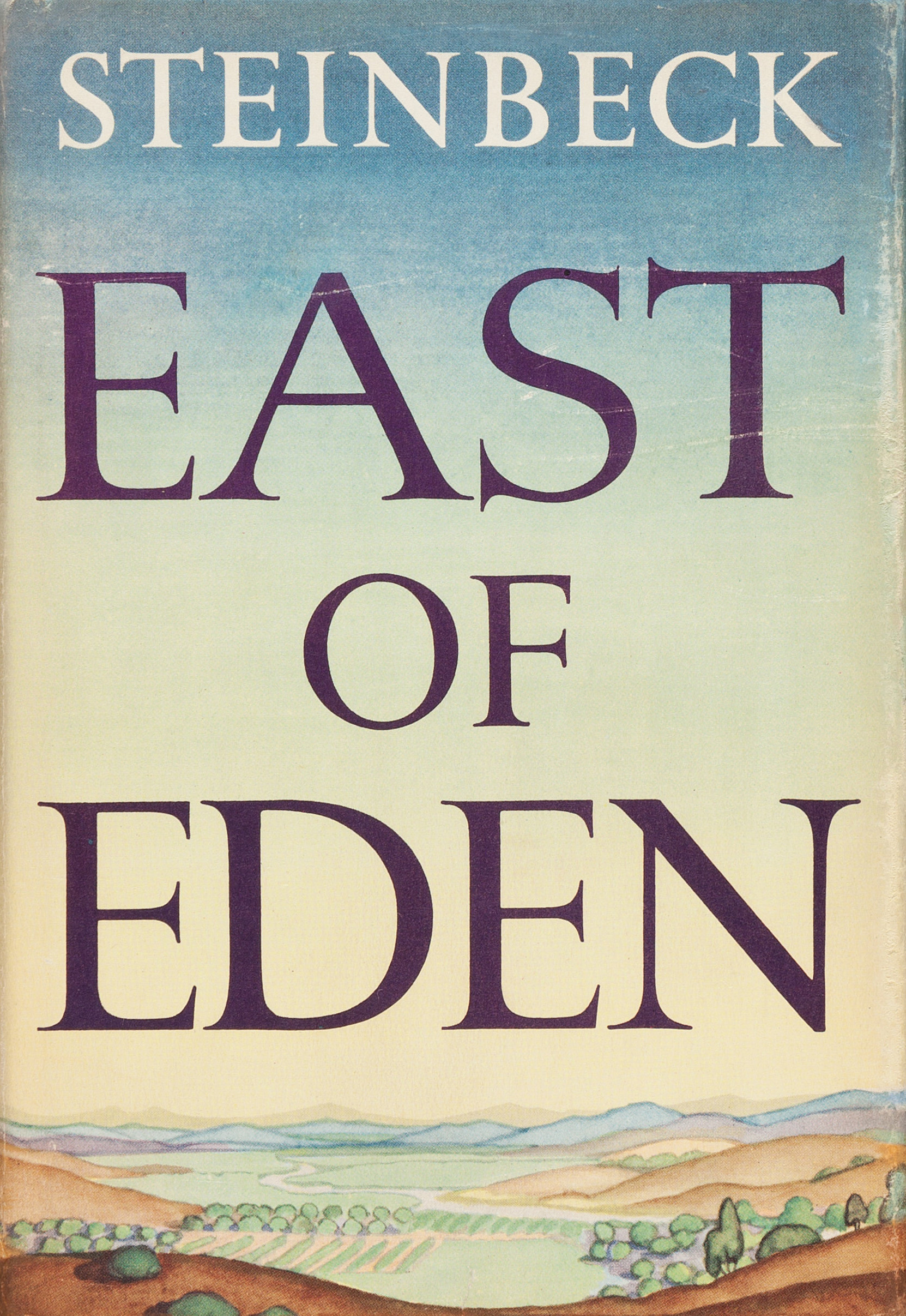 First-edition dust jacket cover of East of Eden (1952) by the American author John Steinbeck.